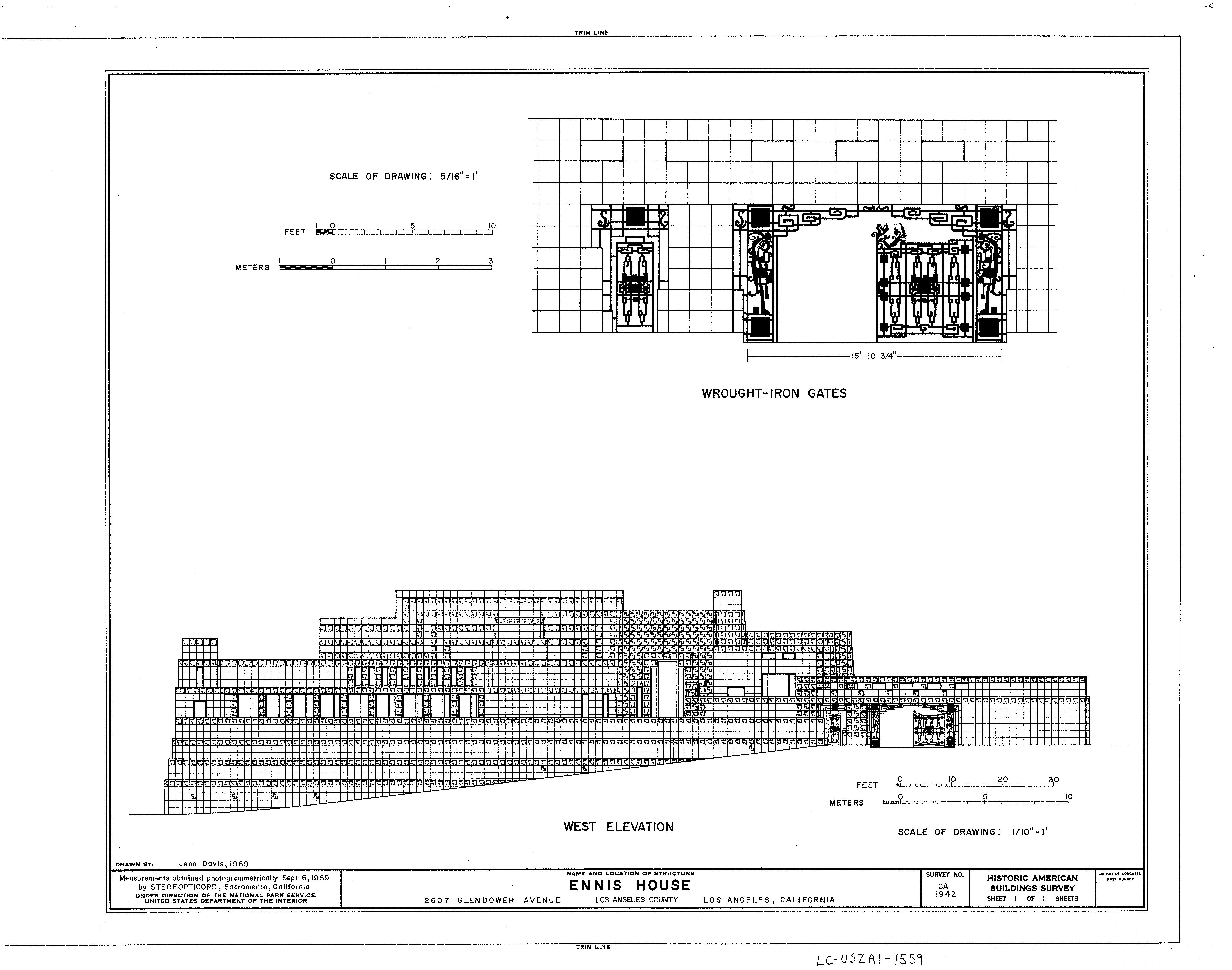 West elevation — Ennis House, by architect Frank Lloyd Wright. Courtesy of the Historic American Buildings Survey, Library of Congress, Washington, D. C.